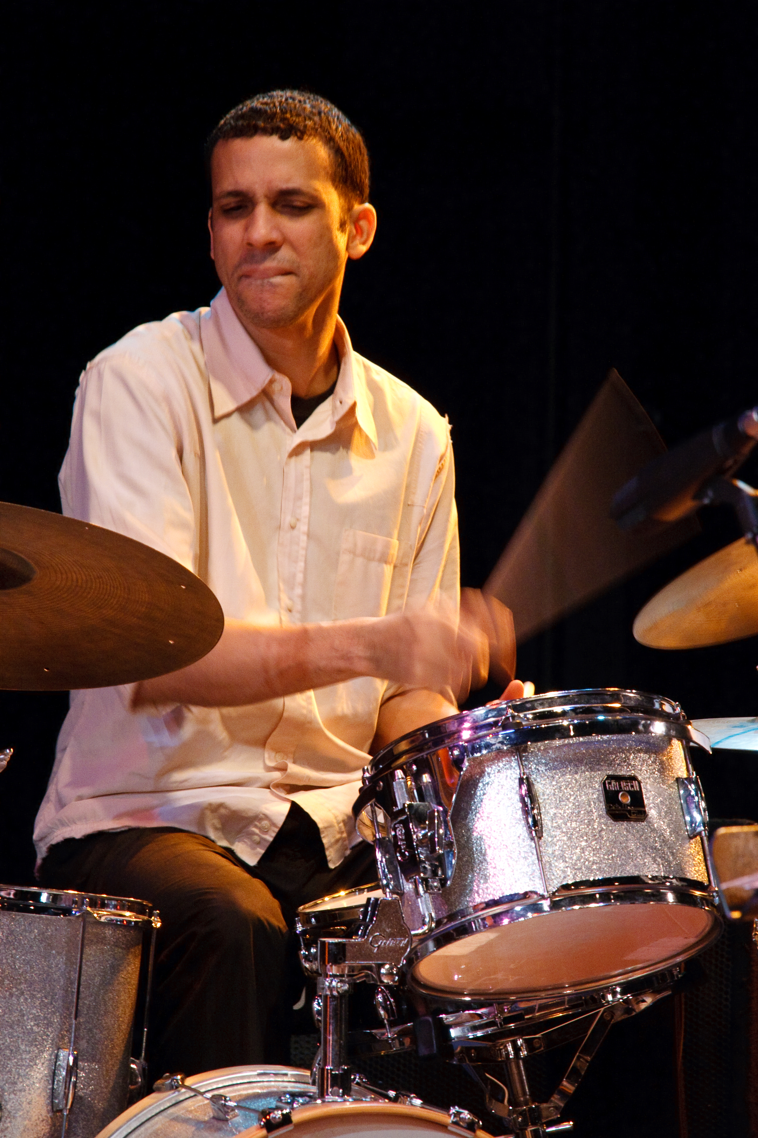 with the Steve Wilson Quartet, at Live Arts